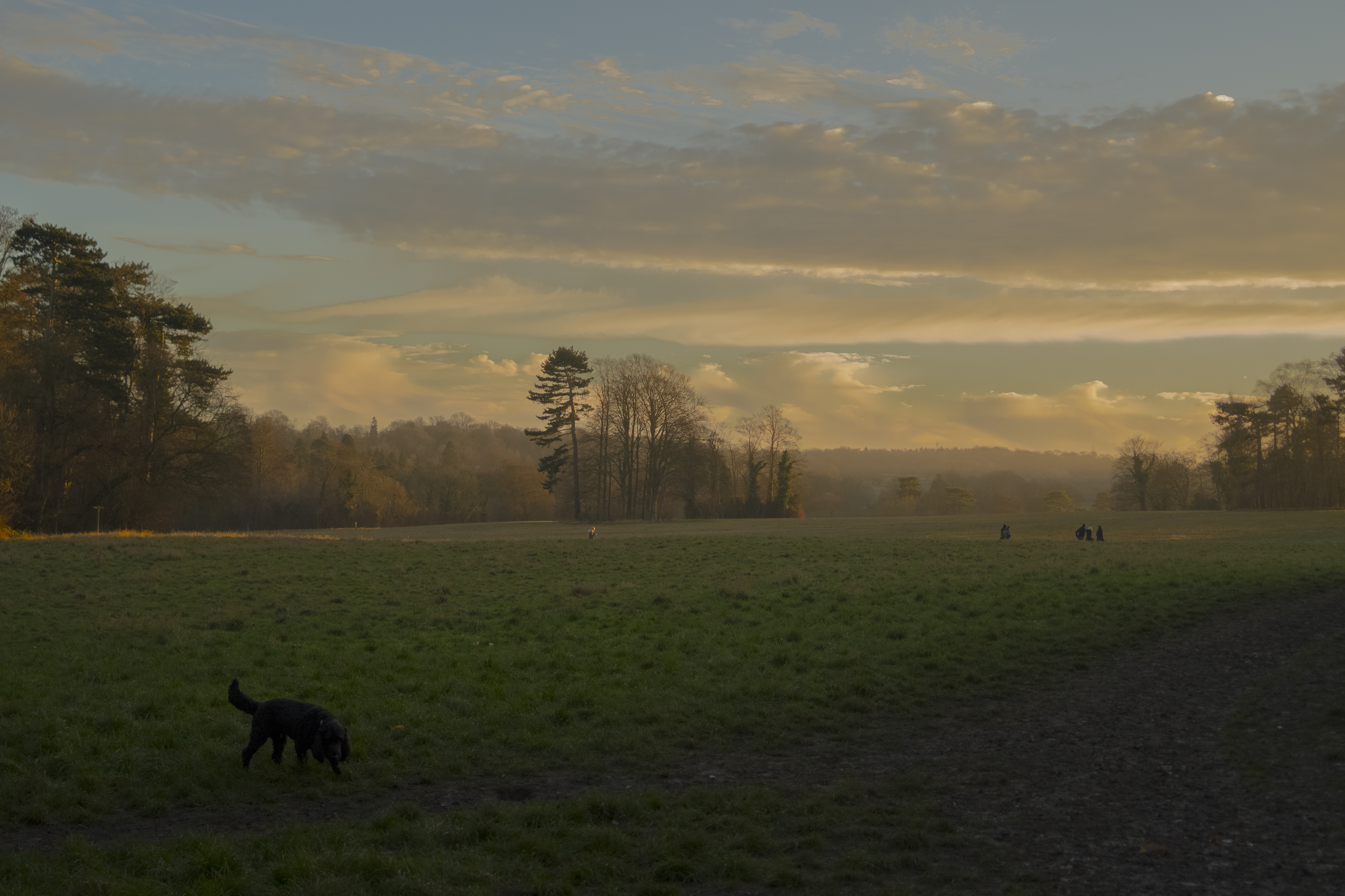 Looking south across fields from St Giles the Abbot church, Orpington